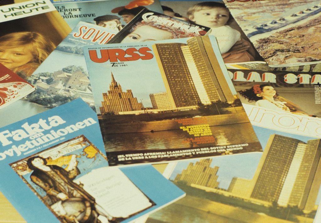 “Magazines of Novosti Press Agency”. Magazines issued by Novosti Press Agency.